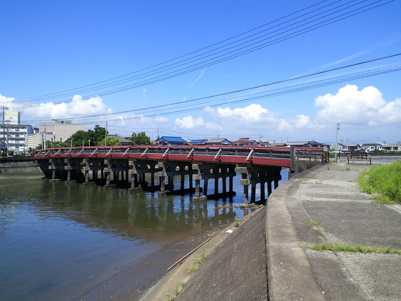 Edobashi (Bridge), Tsu, Mie